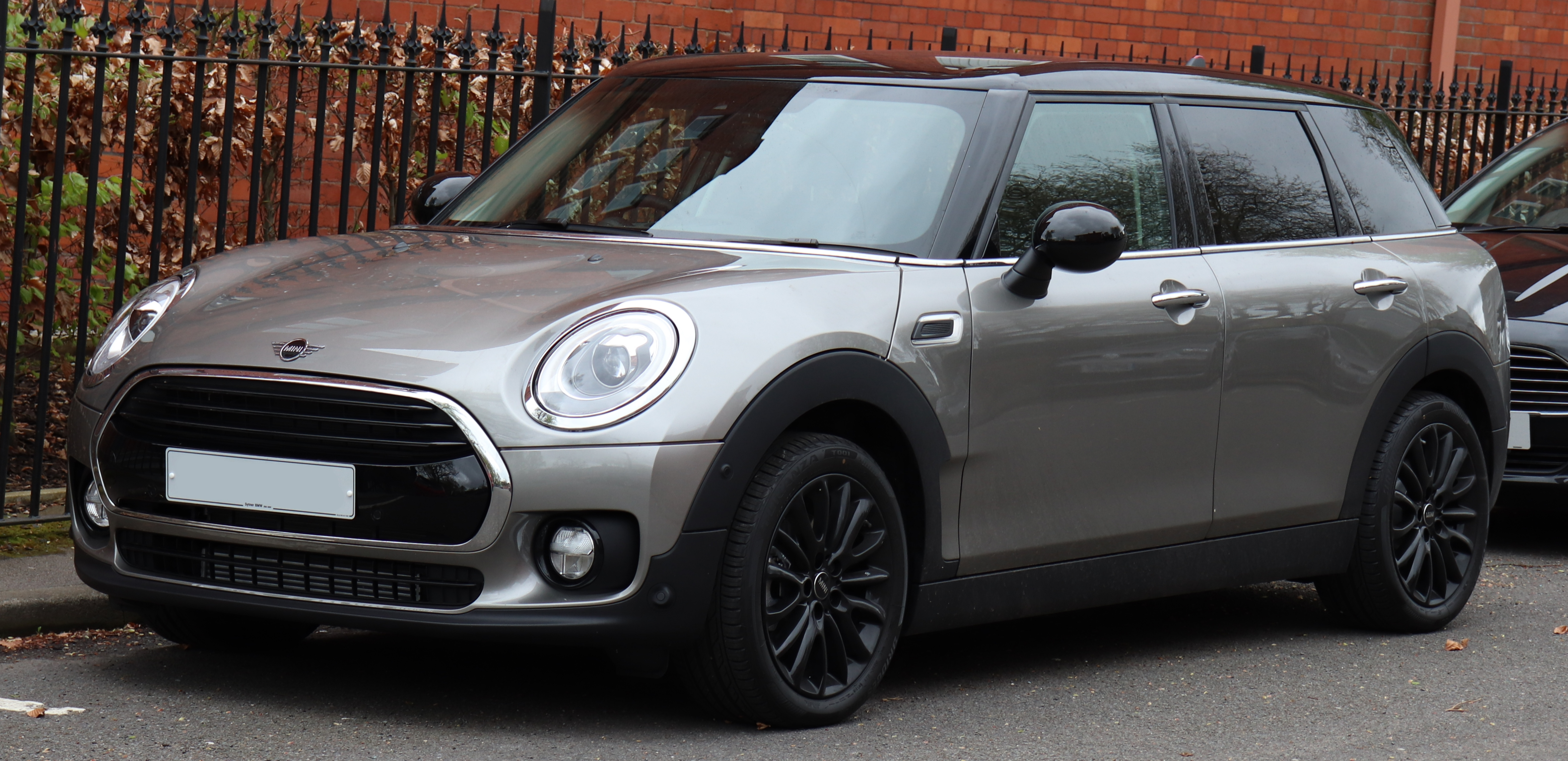 2018 Mini Clubman Cooper Automatic 1.5 Front Taken in Leamington Spa